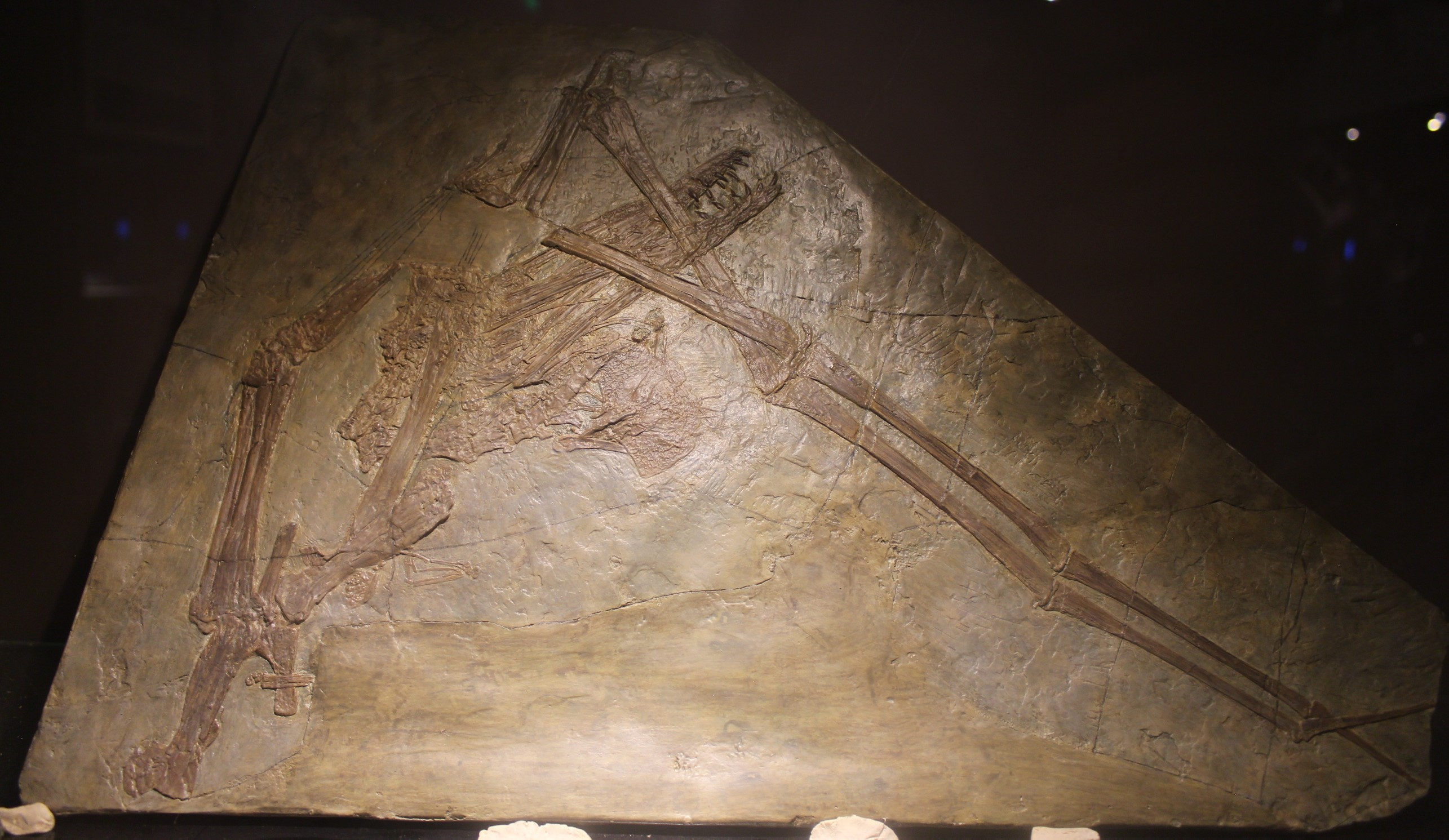 Holotype of Haopterus gracilis on display at the Paleozoological Museum of China.